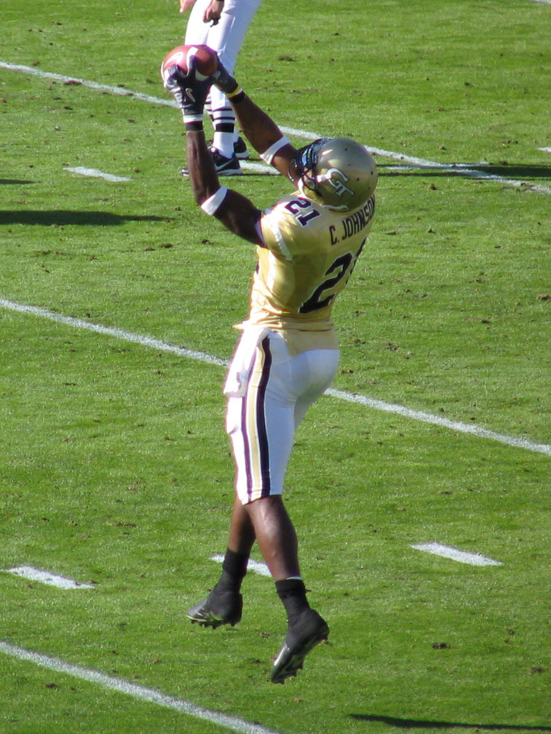 A cropped version of Image:Calvin Johnson midair pass.jpg; using same license as original image.